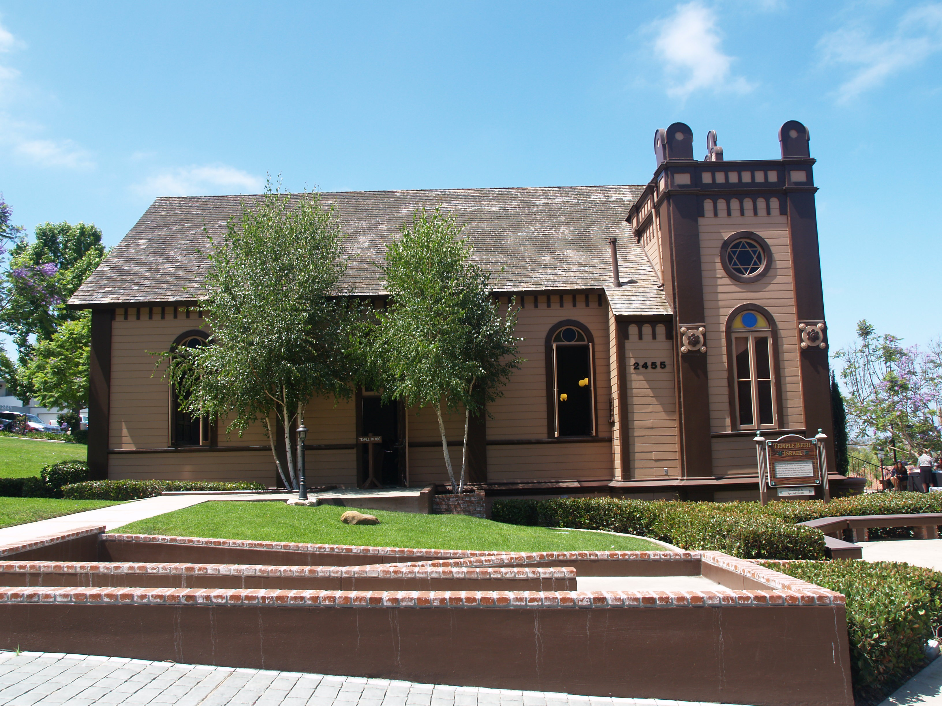 Temple Beth Israel is San Diego's first synagogue. It is located in Heritage Park in San Diego's Old Town area. The first services held here were on September 25, 1889. Attribution to: Phil Konstantin